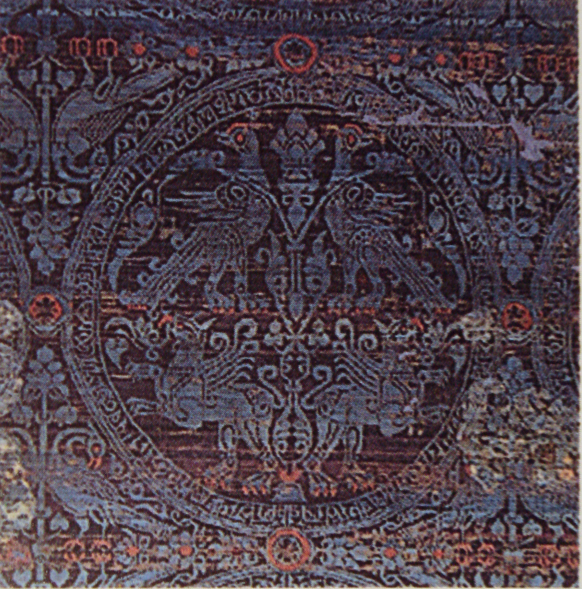 Pseudo Kufic script in medallion on Byzantine shroud of Saint Potentien 12th century; rotated to show phoenixes and griffins right-side-up.